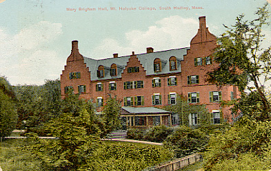 A Newvochrome postcard published by The Springfield News Company, Springfield, Mass. prior to October 1920